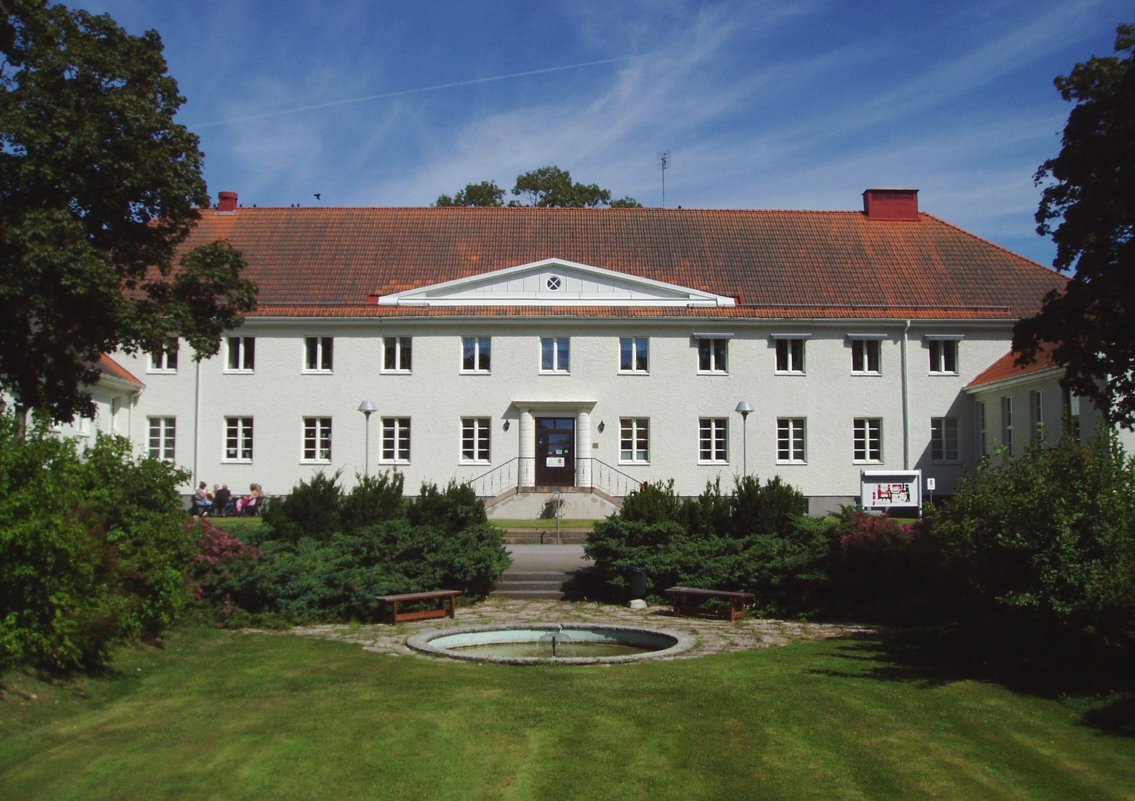 Vara folk high school, Sweden